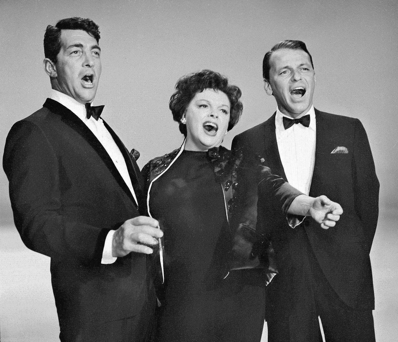 Photo of Dean Martin, Judy Garland and Frank Sinatra performing on The Judy Garland Show in 1962. This was a stand-alone special originally broadcast Feb. 25, 1962. It was not an episode of Garland's subsequent 1963-64 TV series.